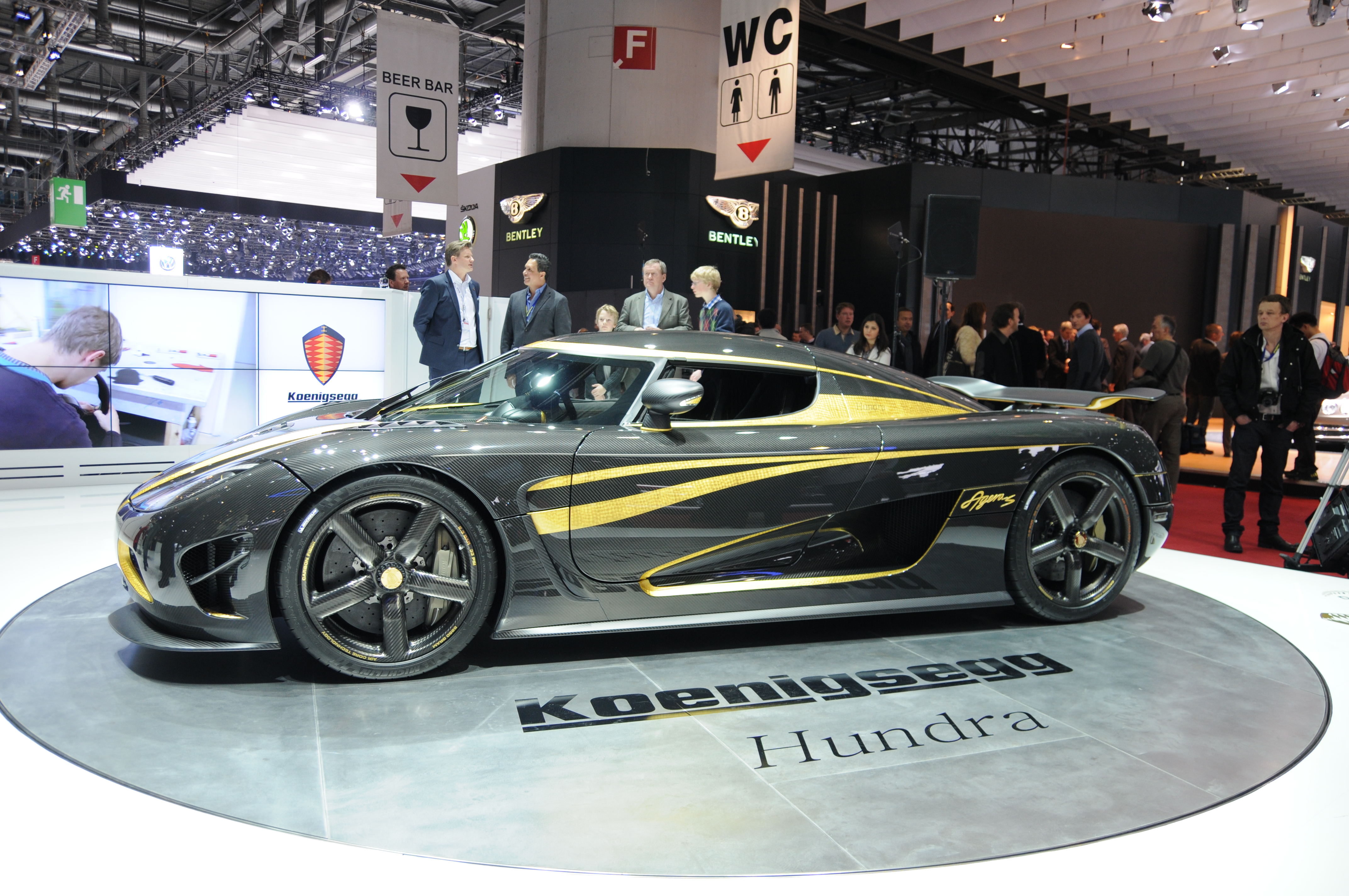 Geneva Motor Show 2013 (photos taken on the first press day)